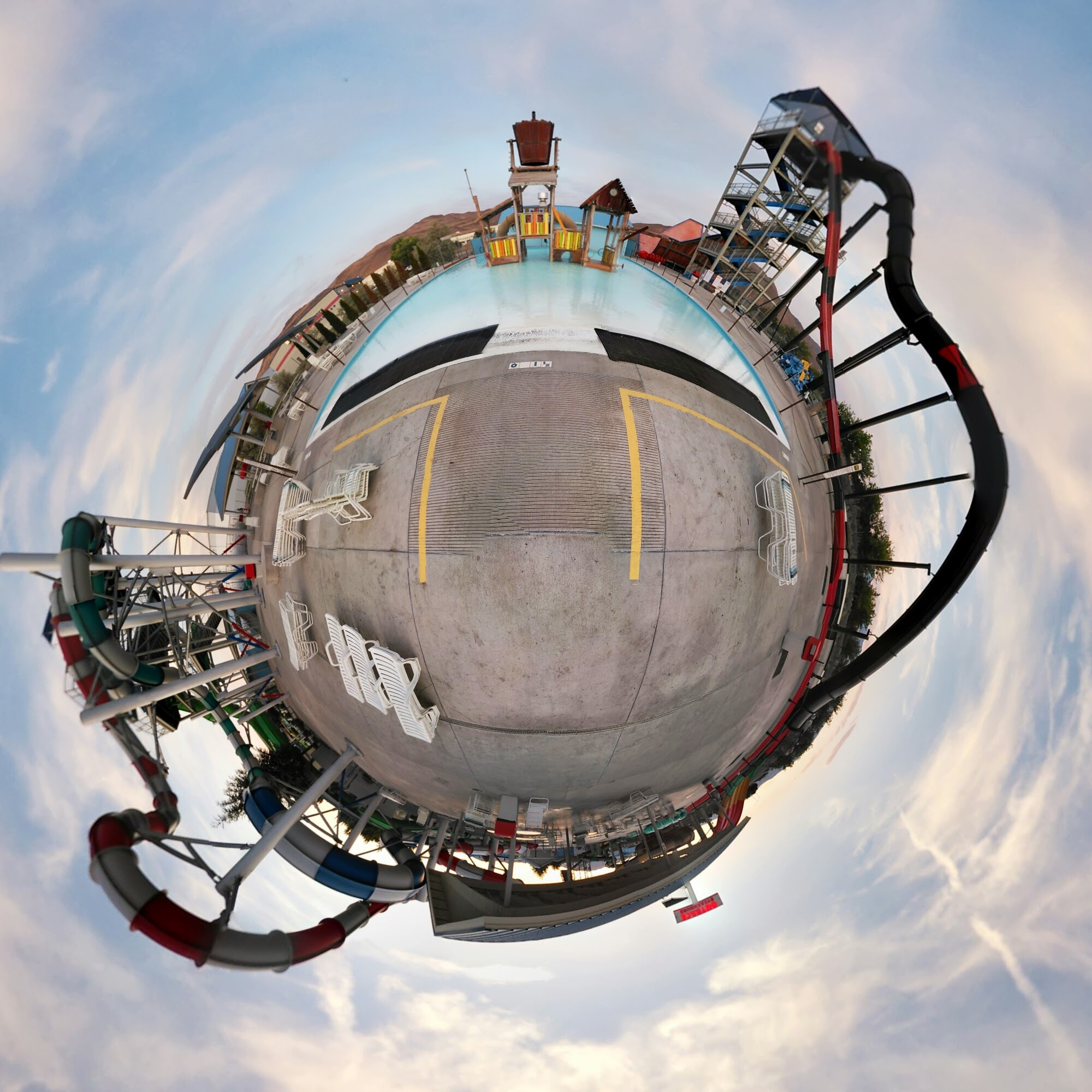 A photosphere created by a Nexus 7 version 2 using the Android Photosphere and miniworld features. Photo is of Wild Island Family Adventure Park in Sparks, Nevada